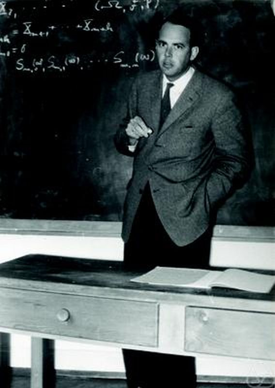 Erik Sparre Andersen, Oberwolfach 1963